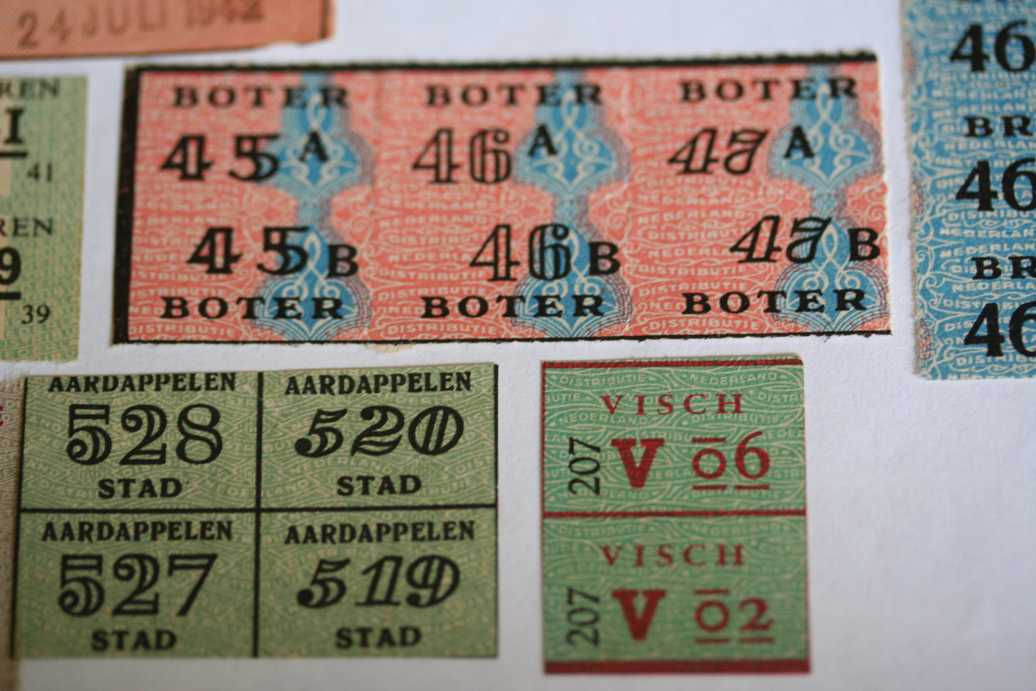 Dutch Food distribution coupons dating from WWII photo: Sander van der Molne